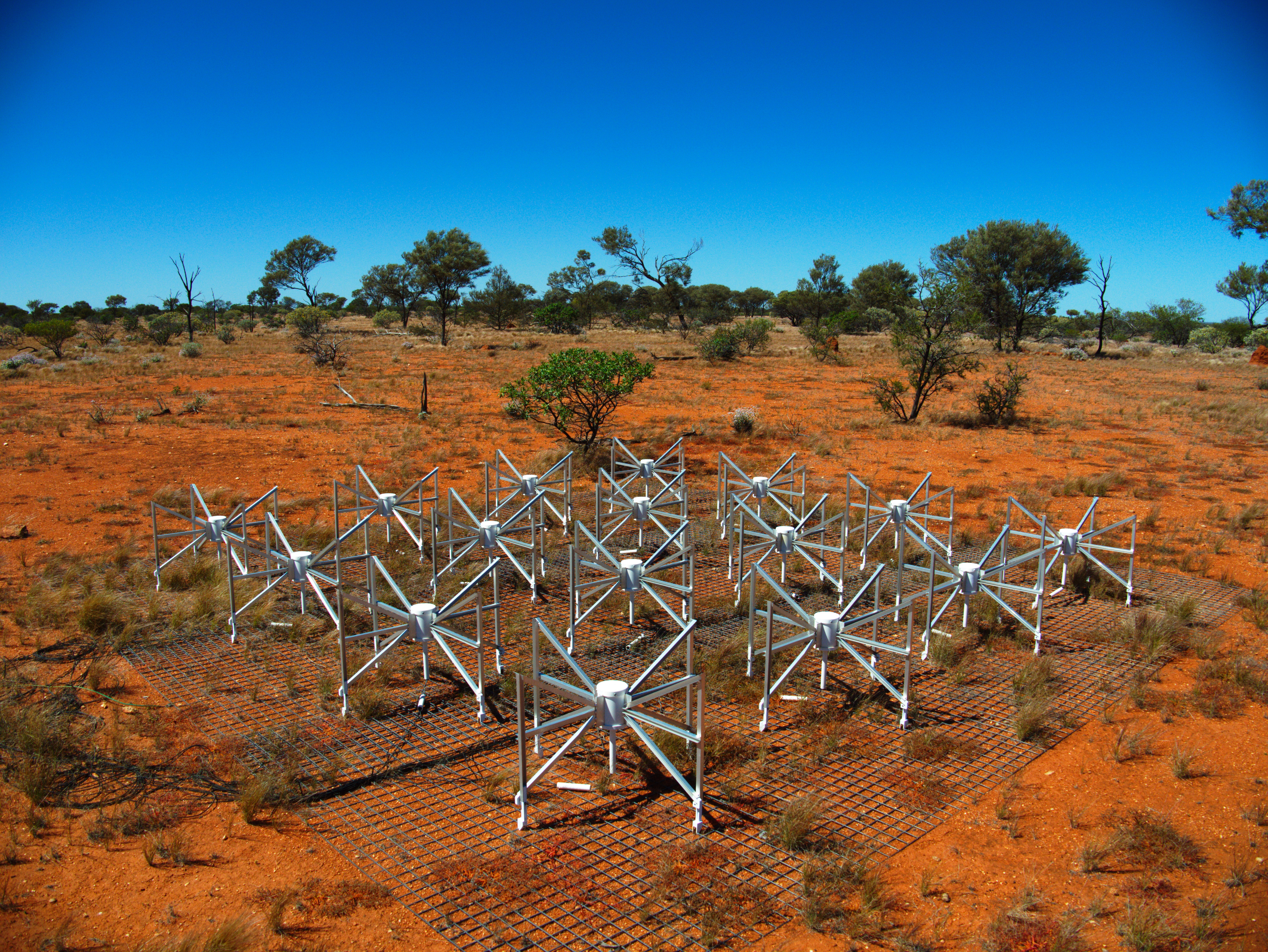 One of the tiles making up the 32T, a prototype instrument for the Murchison Widefield Array.